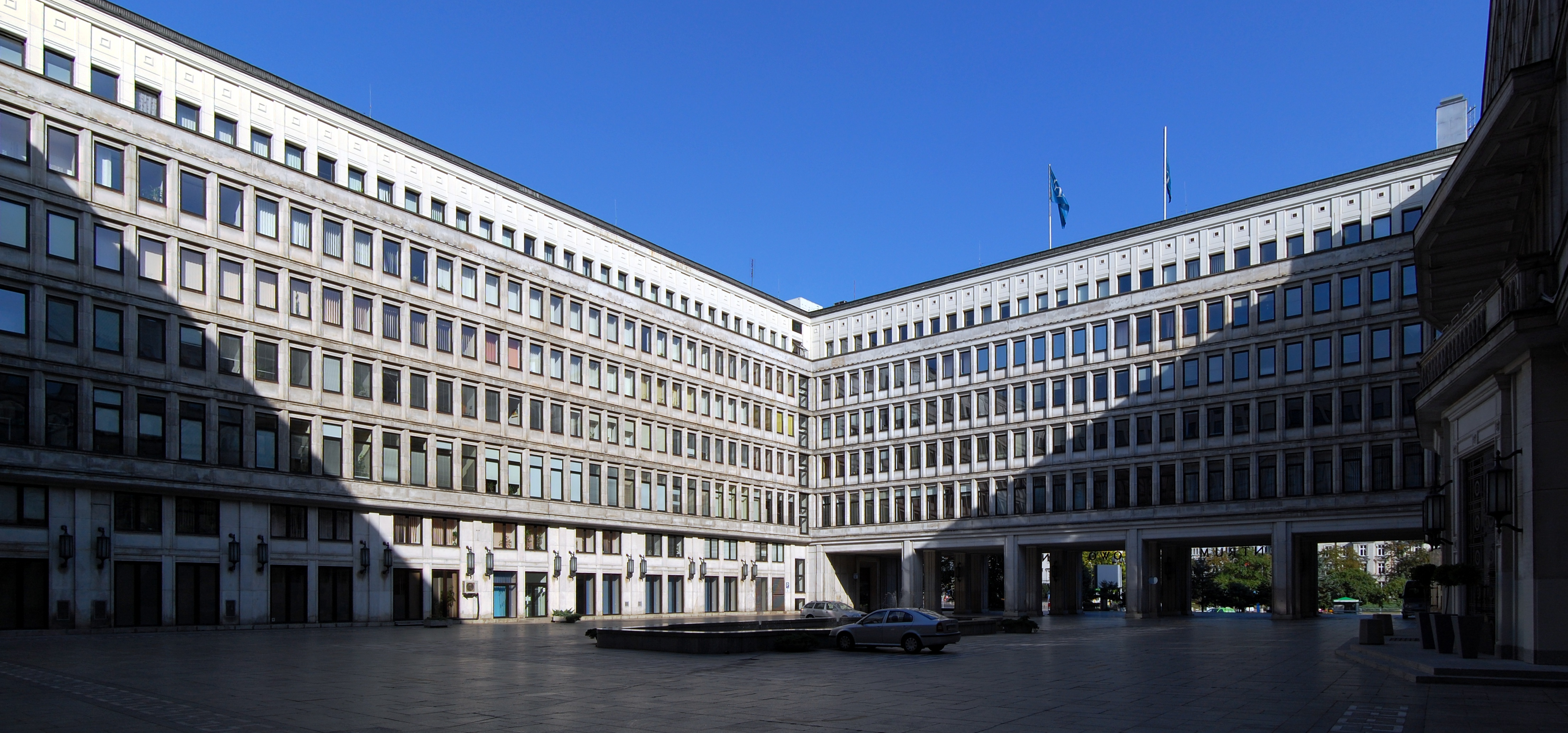 Courtyard of the former Polish Communist Party building, now a financial banking center in Warsaw, Poland.